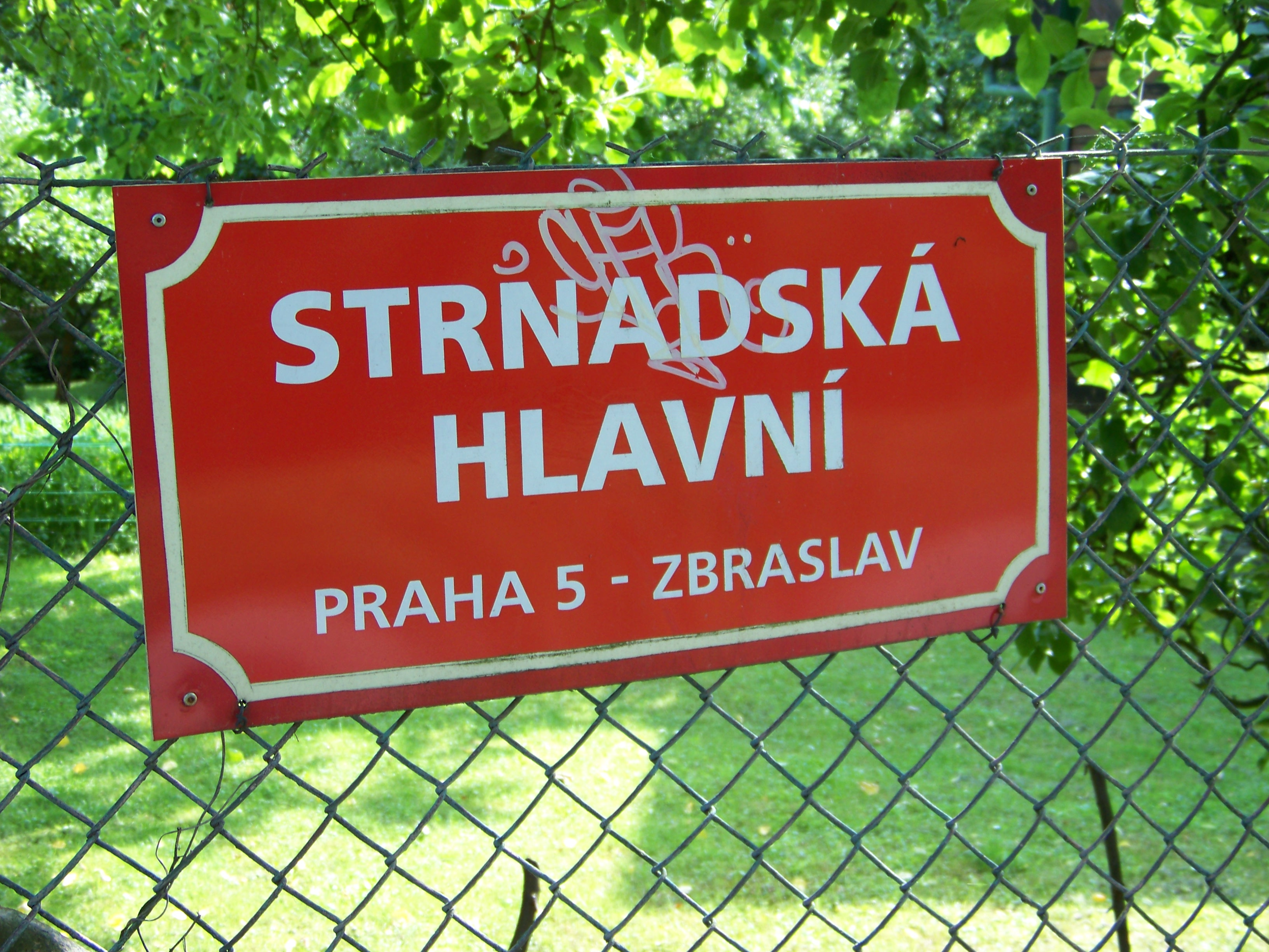 Prague-Zbraslav-Strnady, the Czech Republic. Strnadská Hlavní street, a sign of unofficial street name. s - Google Maps - Google Earth